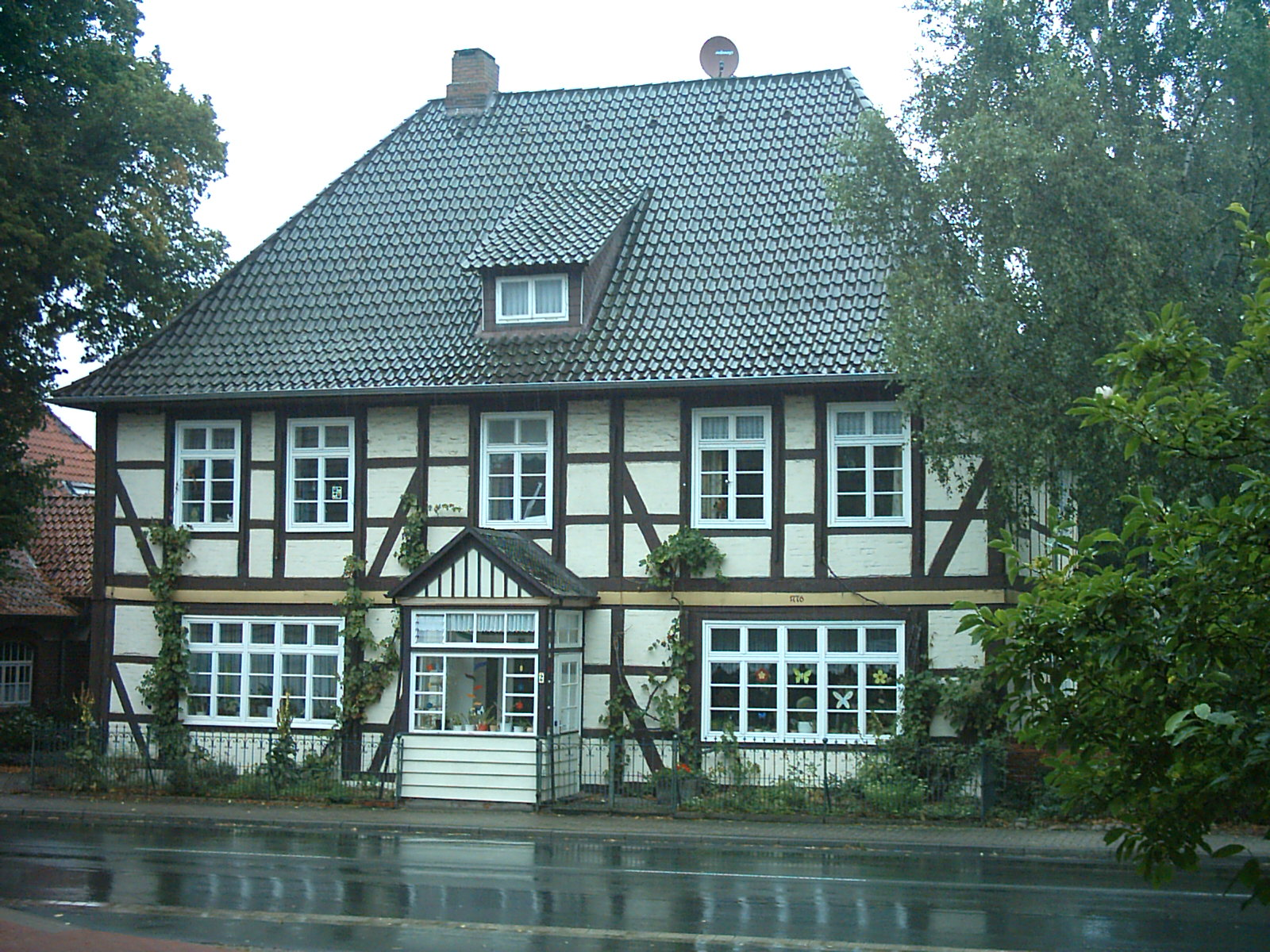 Birthplace of Ludwig Heinrich Grote